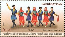 Folk dances. Joint issue of Azerbaijan and Moldova. N 1229 - 50 qapik – There are pictured the “Yalli” – Azerbaijan national dance on the stamp.